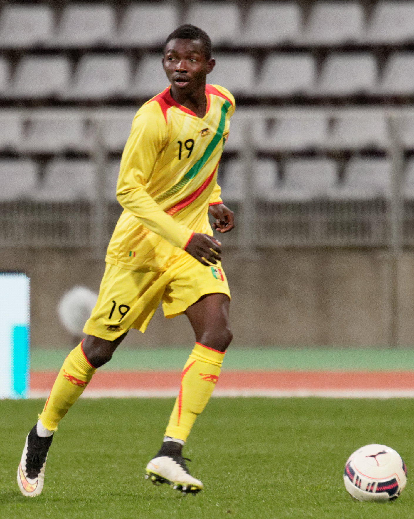 Mali vs Ghana, exhibition game at Paris, 31st March 2015.